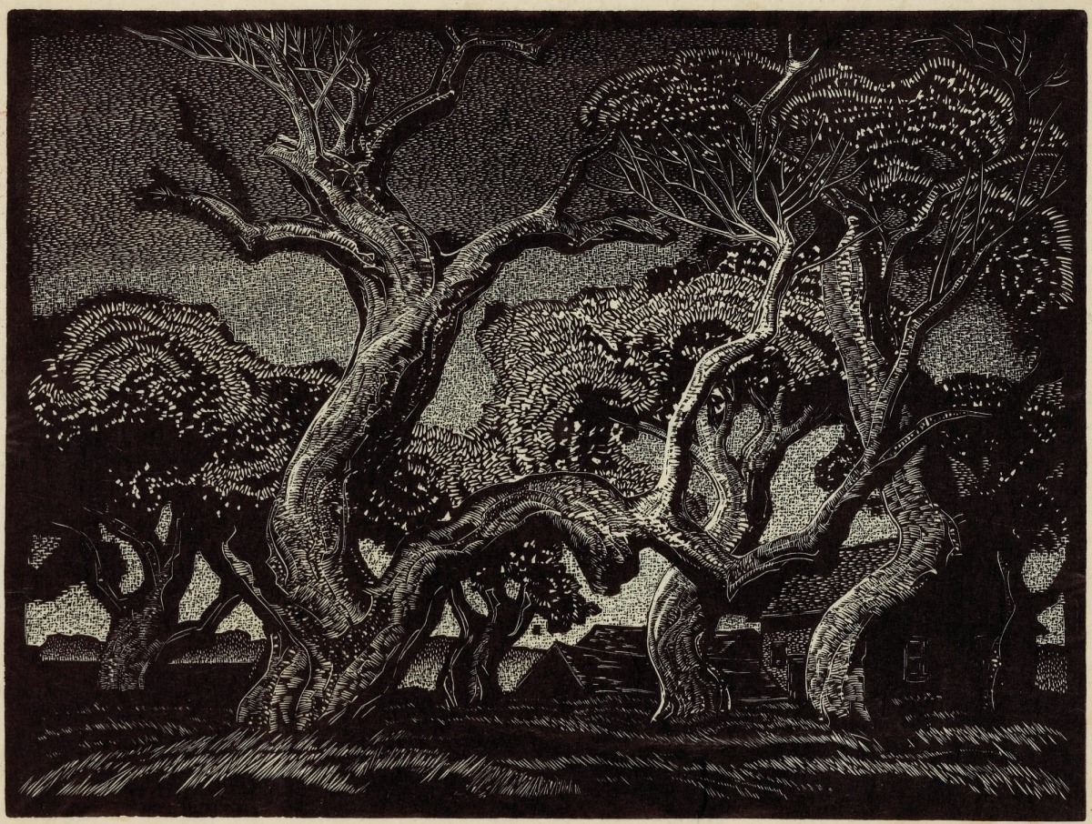 Franklin Carmichael, Old Orchard, c. 1940, wood engraving on laid paper, 18.6 x 26.2 cm irregular (torn at b.), image: 15.1 x 20.1 cm